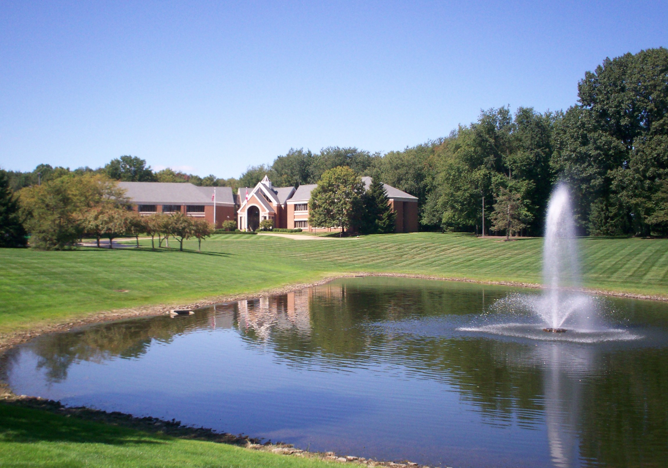 Front view of the corporate headquarters for the Davey Tree Expert Company in Kent, Ohio. The complex is adjacent to the campus of Theodore Roosevelt High School.